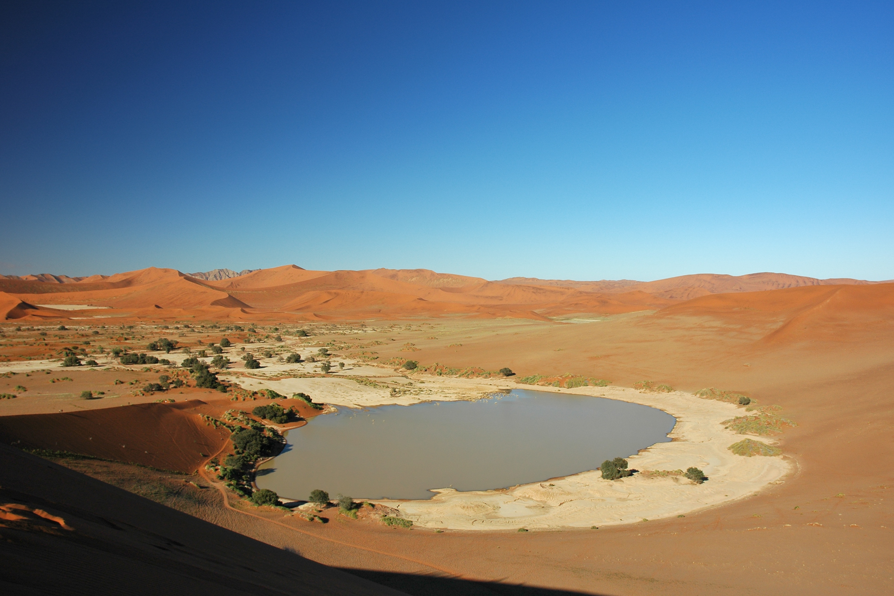 The clay pan at Sossusvlei filled with water, as it can be seen once in a decade. It is fed by the Tsauchab river via the Sesriem canyon, and is situated in the central Namib Naukluft, western Hardap Region, Namibia